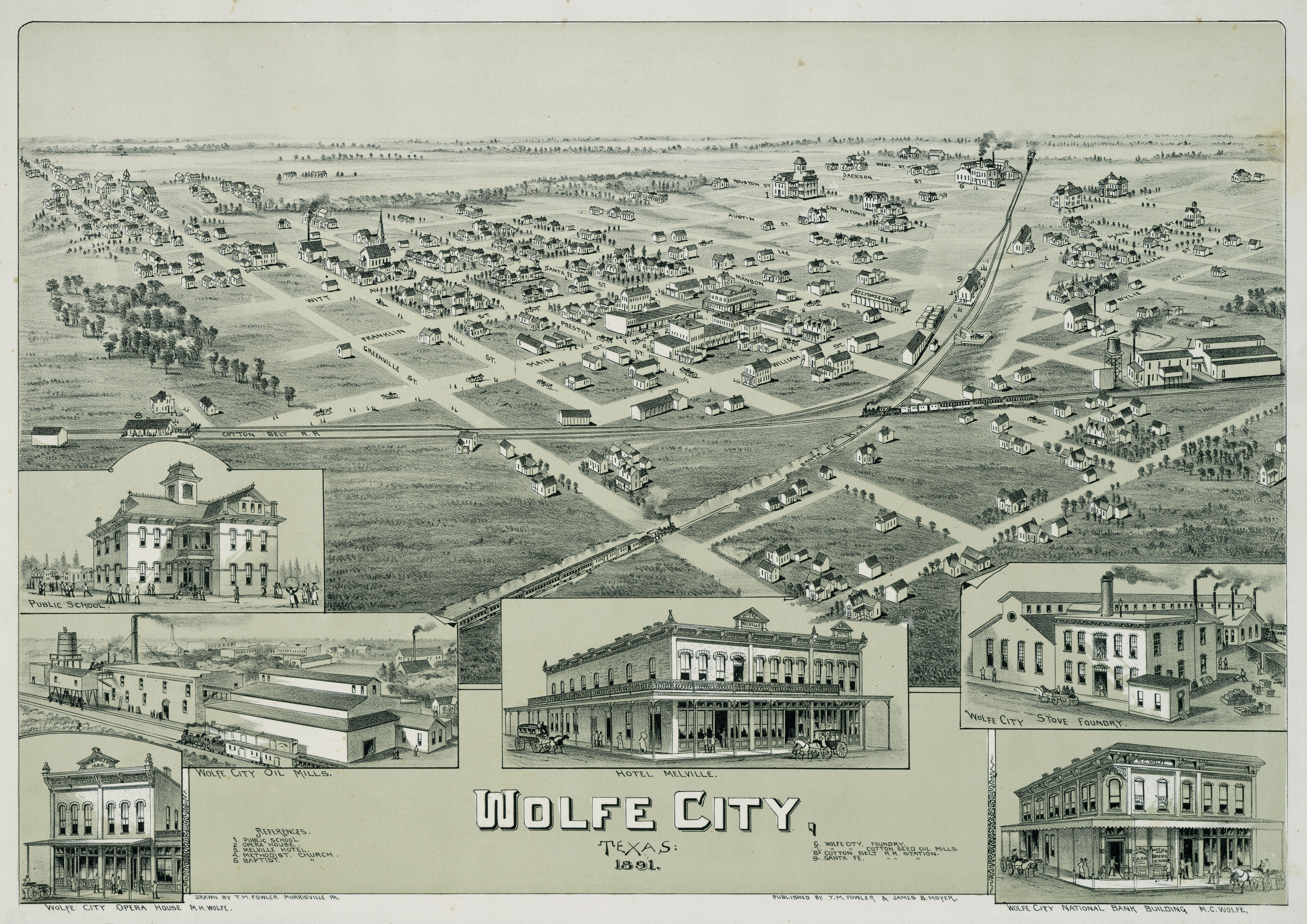 Wolfe City, Texas in 1891. Wolfe City, Texas: 1891, 1891. Toned lithograph, 14.4 x 20.8 in. Published by T. M. Fowler & James B. Moyer. Amon Carter Museum, Fort Worth.